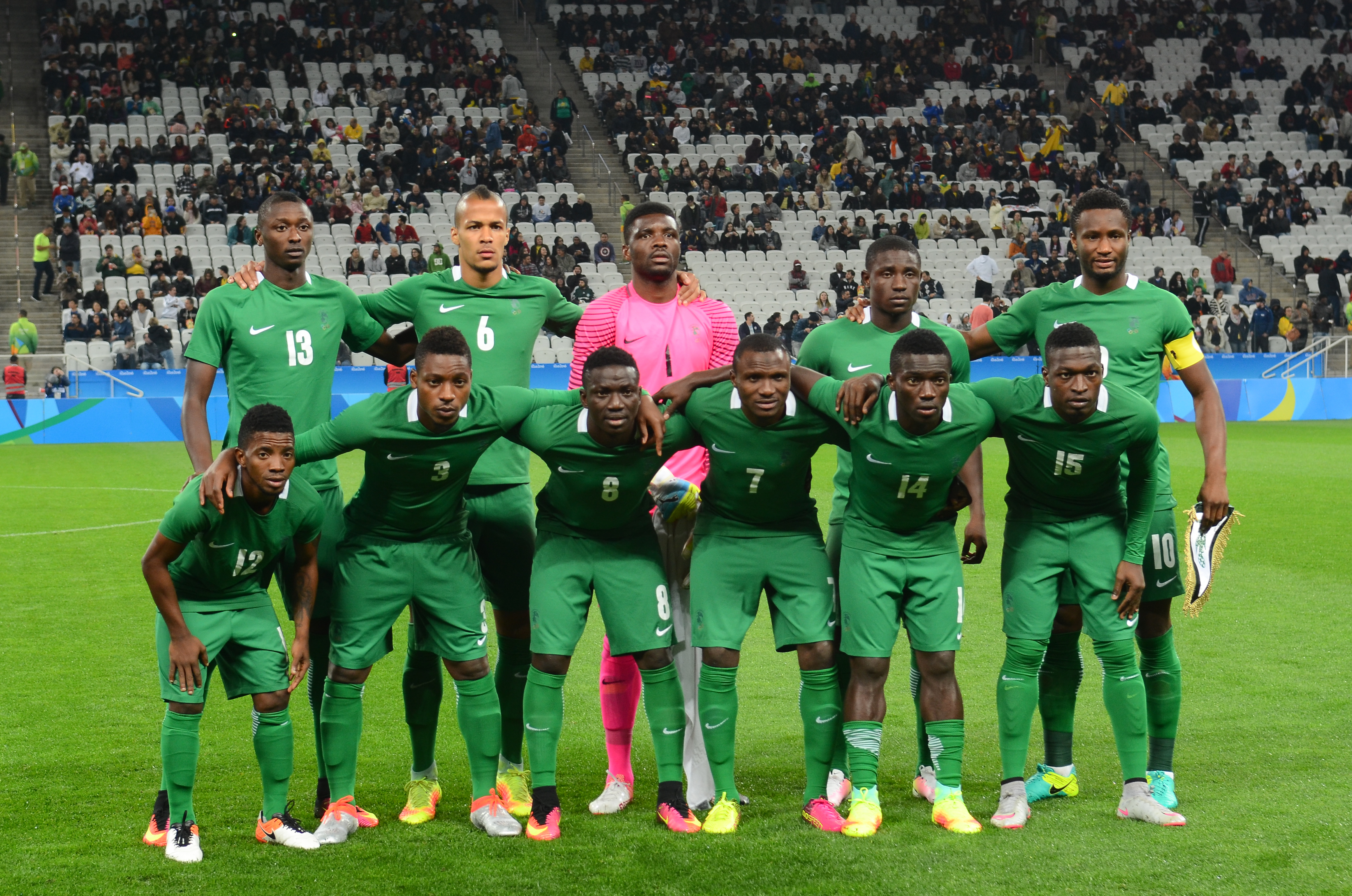 São Paulo - Colômbia vence a Nigéria por 2x0 na Arena Corinthians (Rovena Rosa/Agência Brasil)